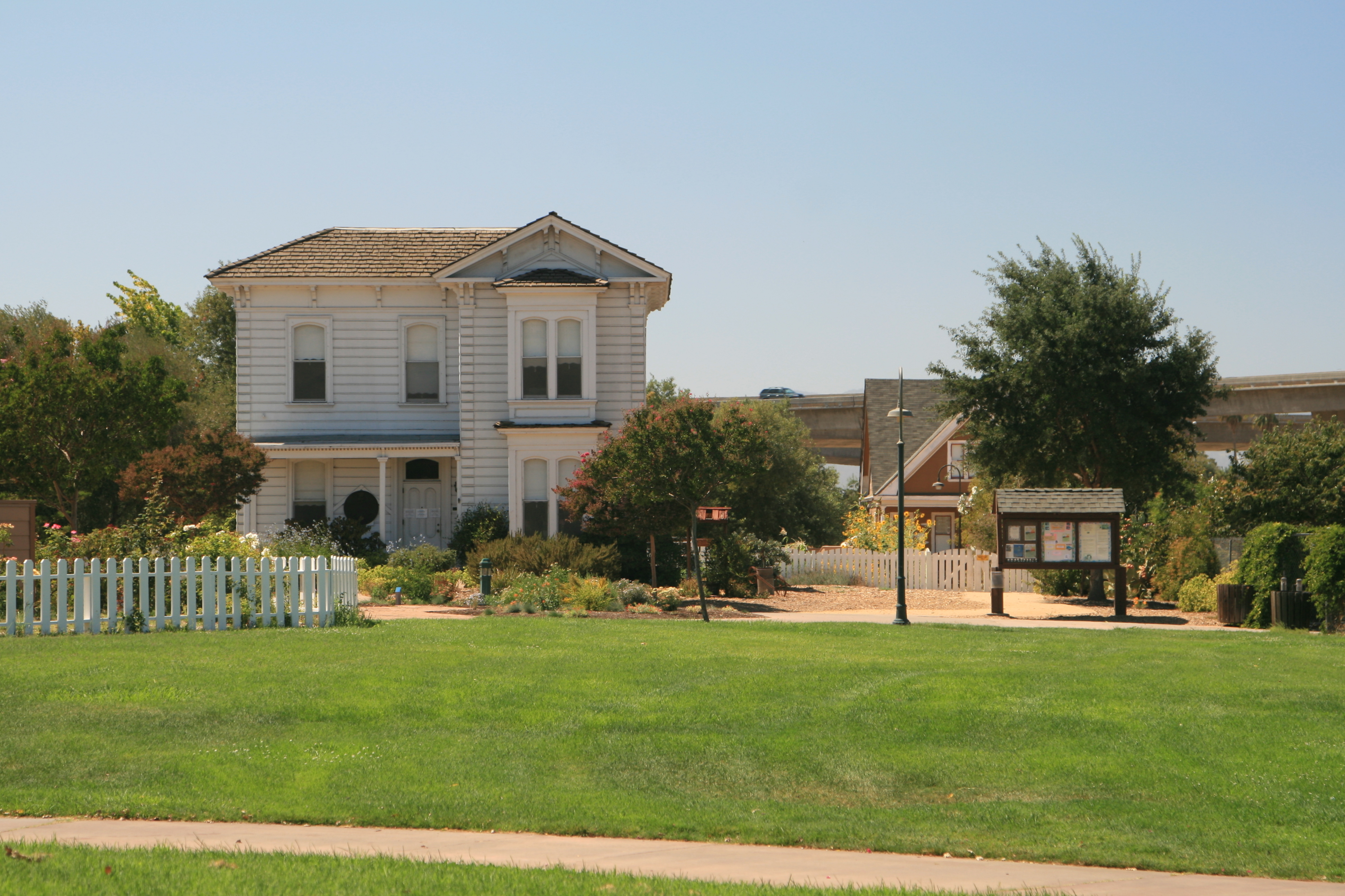 Emma Prusch Farm Park preserved farmhouse